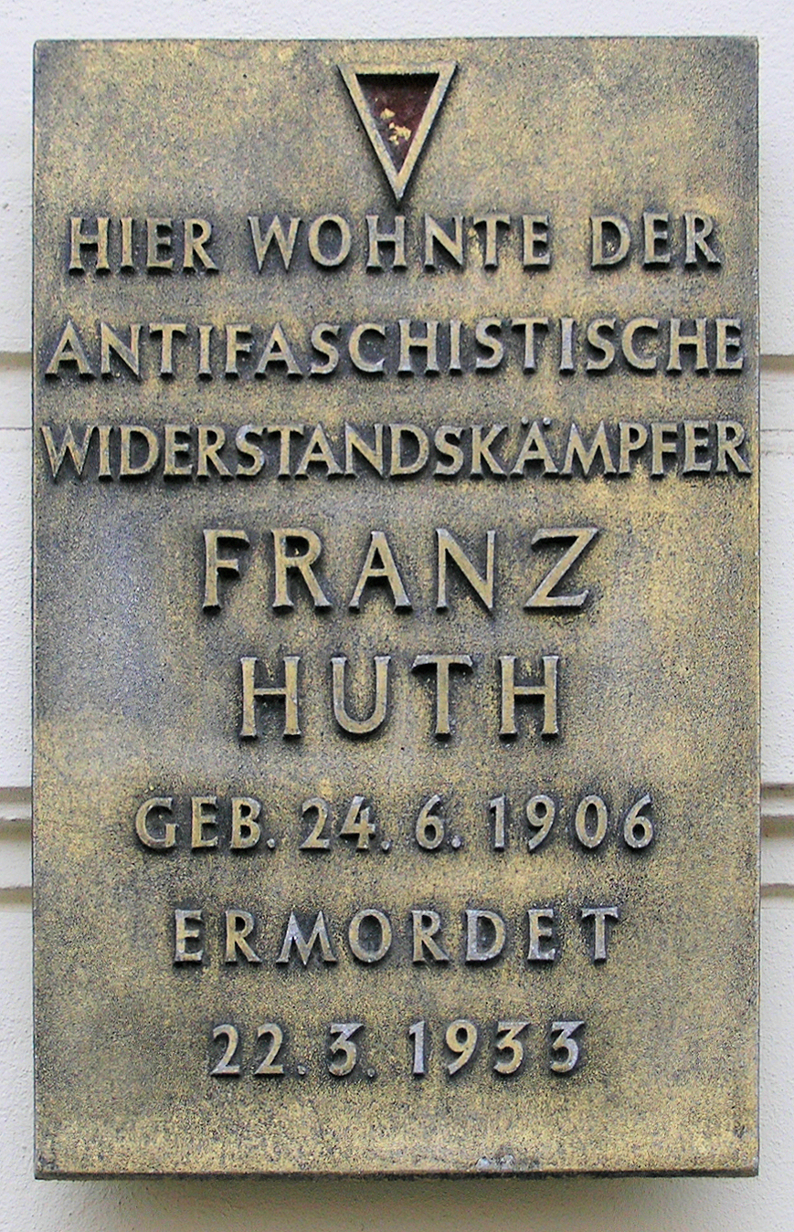 Memorial plaque, Franz Huth, Rykestraße 3, Berlin-Prenzlauer Berg, Germany Koordinate:52°32′6″N 13°25′11″E / 52.535°N 13.41972°E